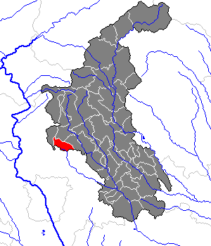 This map shows the area of the Gemeinde (municipality) Stenzengreith in the Bezirk (district) Weiz, Styria, Austria.